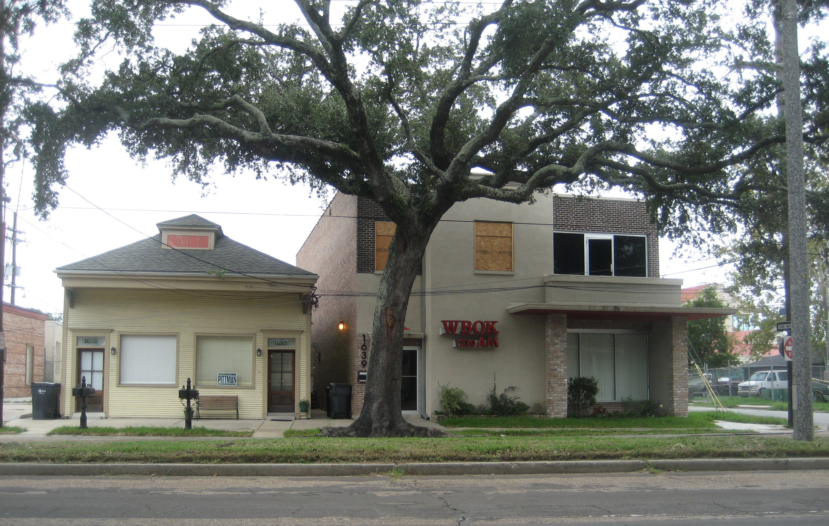 Gentilly section of New Orleans. Studio building of radio WBOK